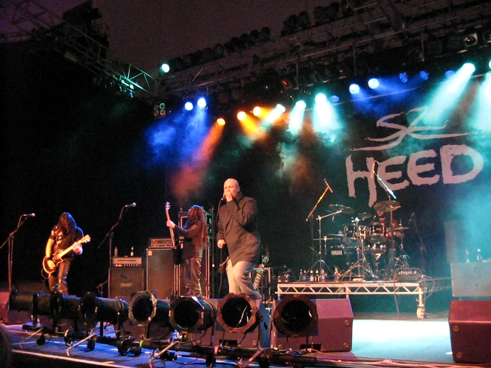 Heed on stage at ProgpowerUK 2, Cheltenham, England. March 31st 2007.